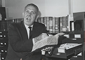 former Congressman Edwin E. Willis.